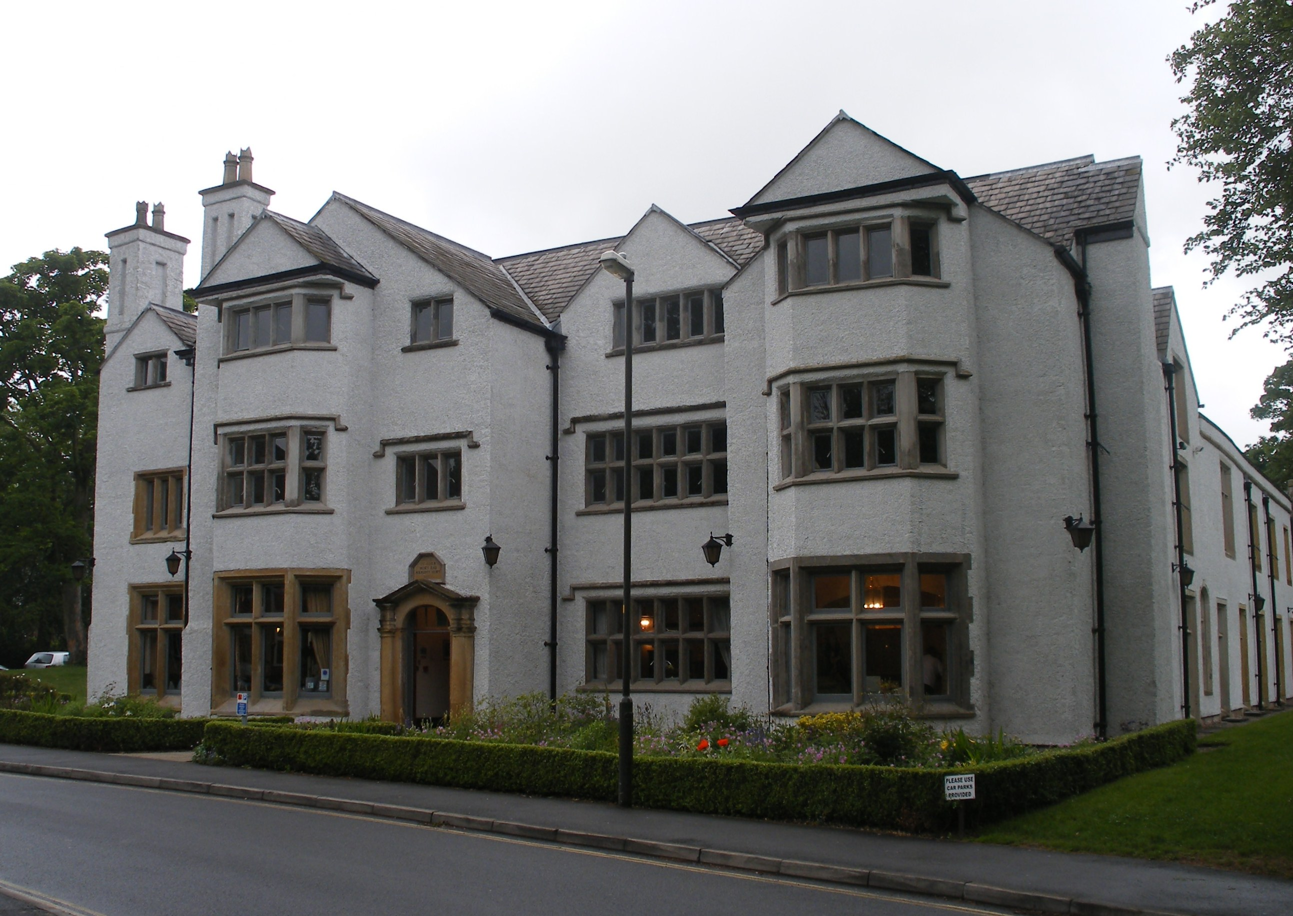 Damhouse (Astley Hall), Tyldesley, Greater Manchester, England, in 2011